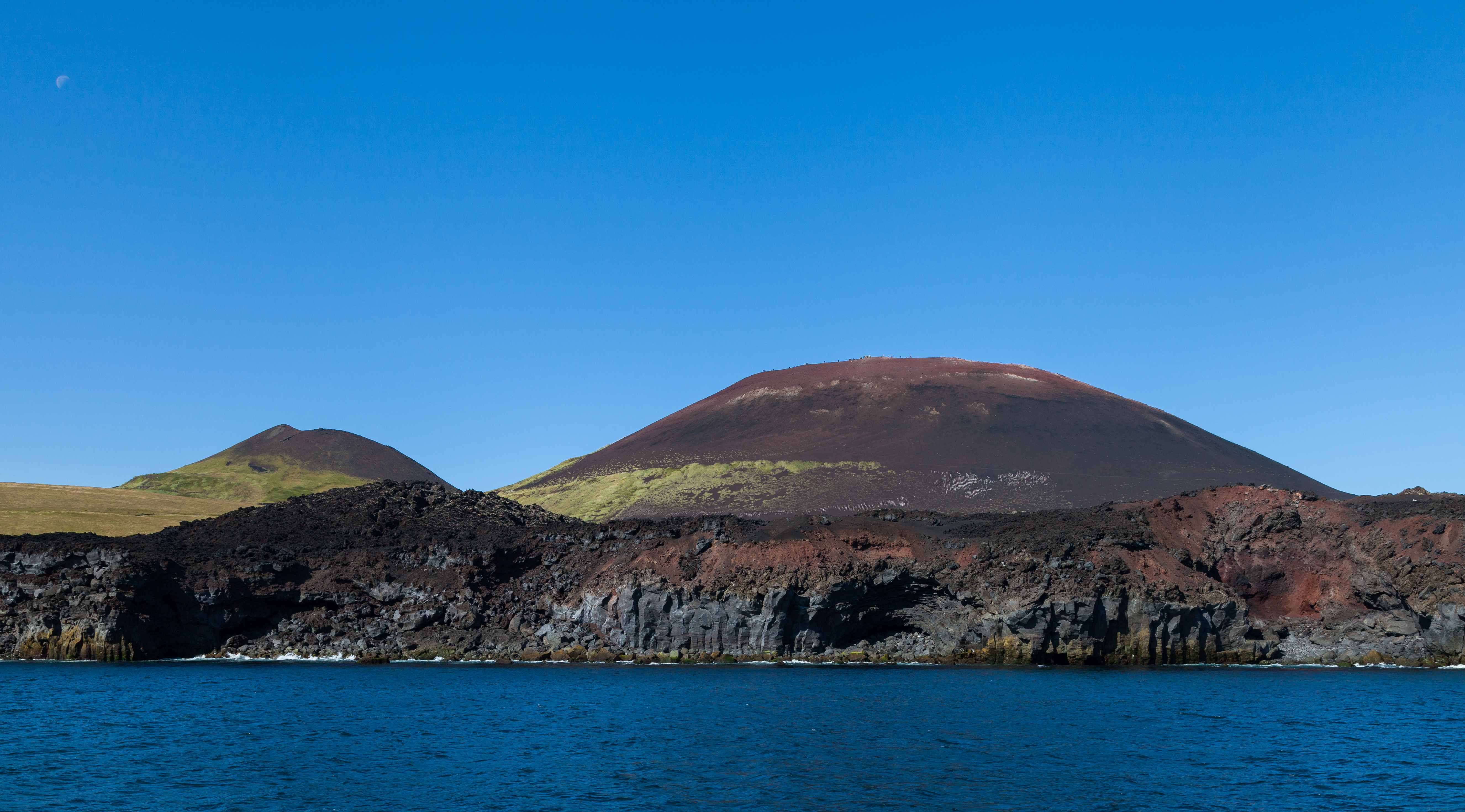 Eldfell, Heimaey, Westman Islands, Suðurland, Iceland